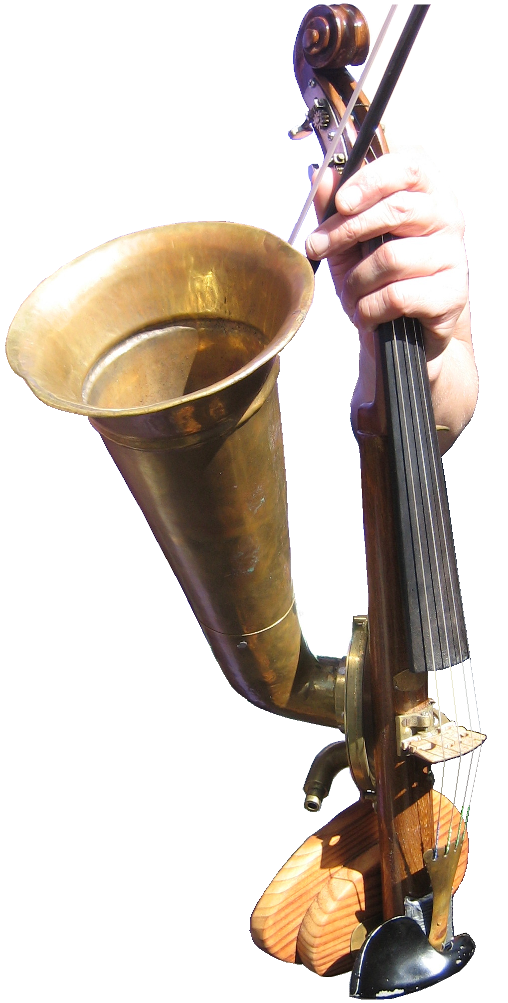 Stroh violin. Improved version of Image:StrohViolinCloseup.jpg